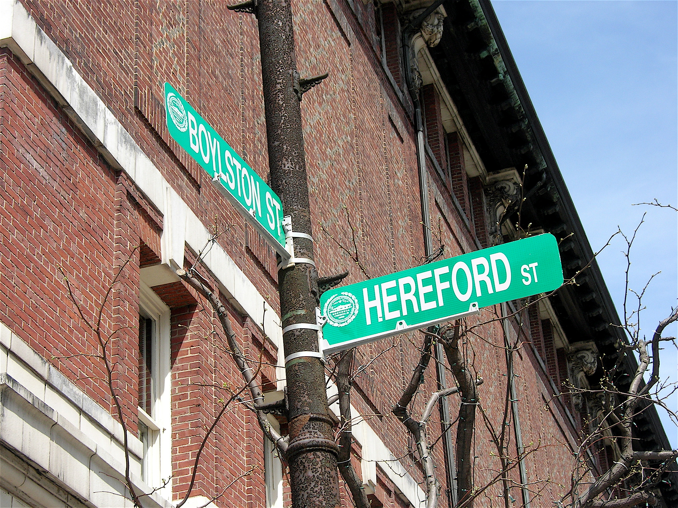 Bolyston and Hereford Streets, in Boston